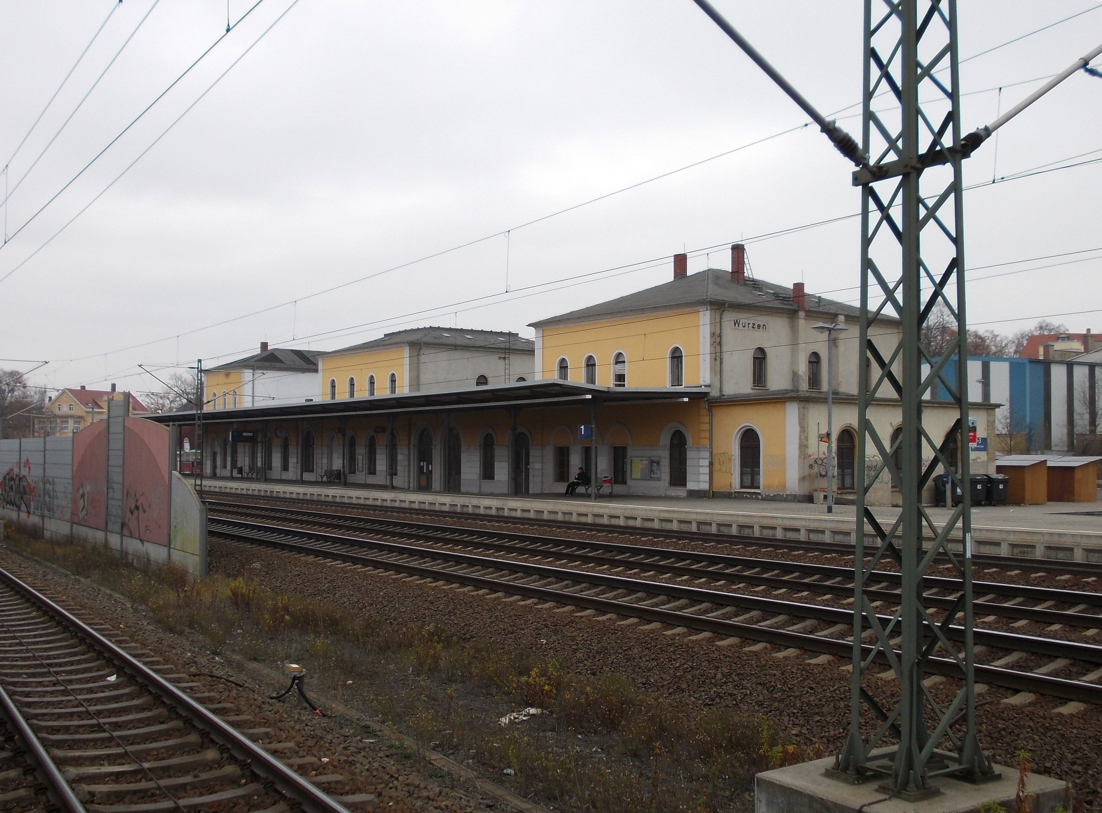 Wurzen train station (Leipzig district, Saxony)